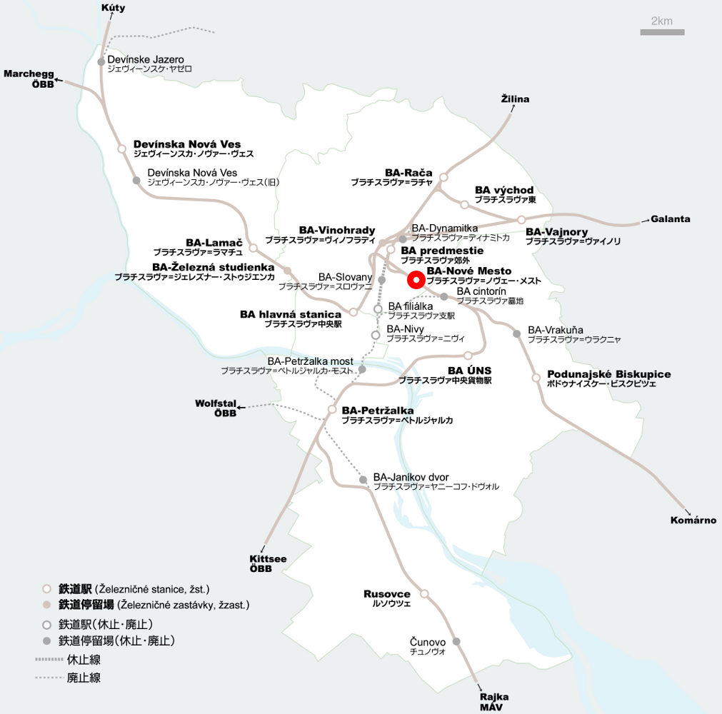 Location map of Železničná stanica Bratislava-Nové Mesto with Japanese language